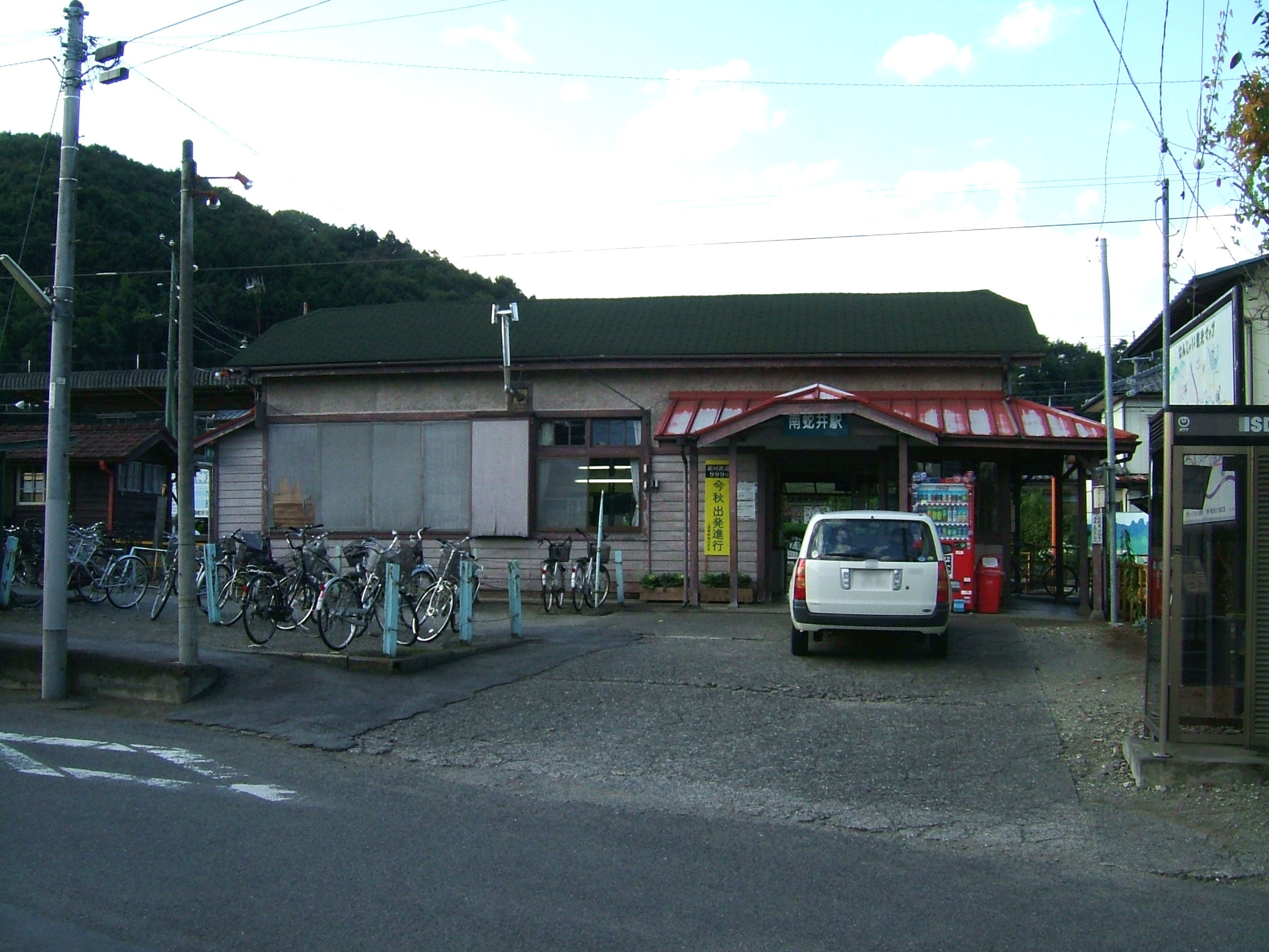 Nanjai Station building (Jōshin Dentetsu Jōshin Line)